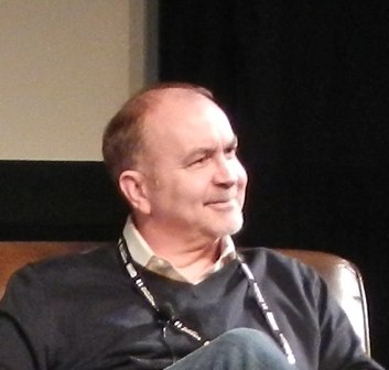 Stephen Gaghan, Anna Deavere Smith, Andrew Stanton, Terence Winter and Caryn James The Power of Story: In the Beginning at Sundance 2012